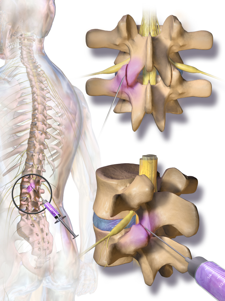 Facet Joint Injection. See a full animation of this medical topic.